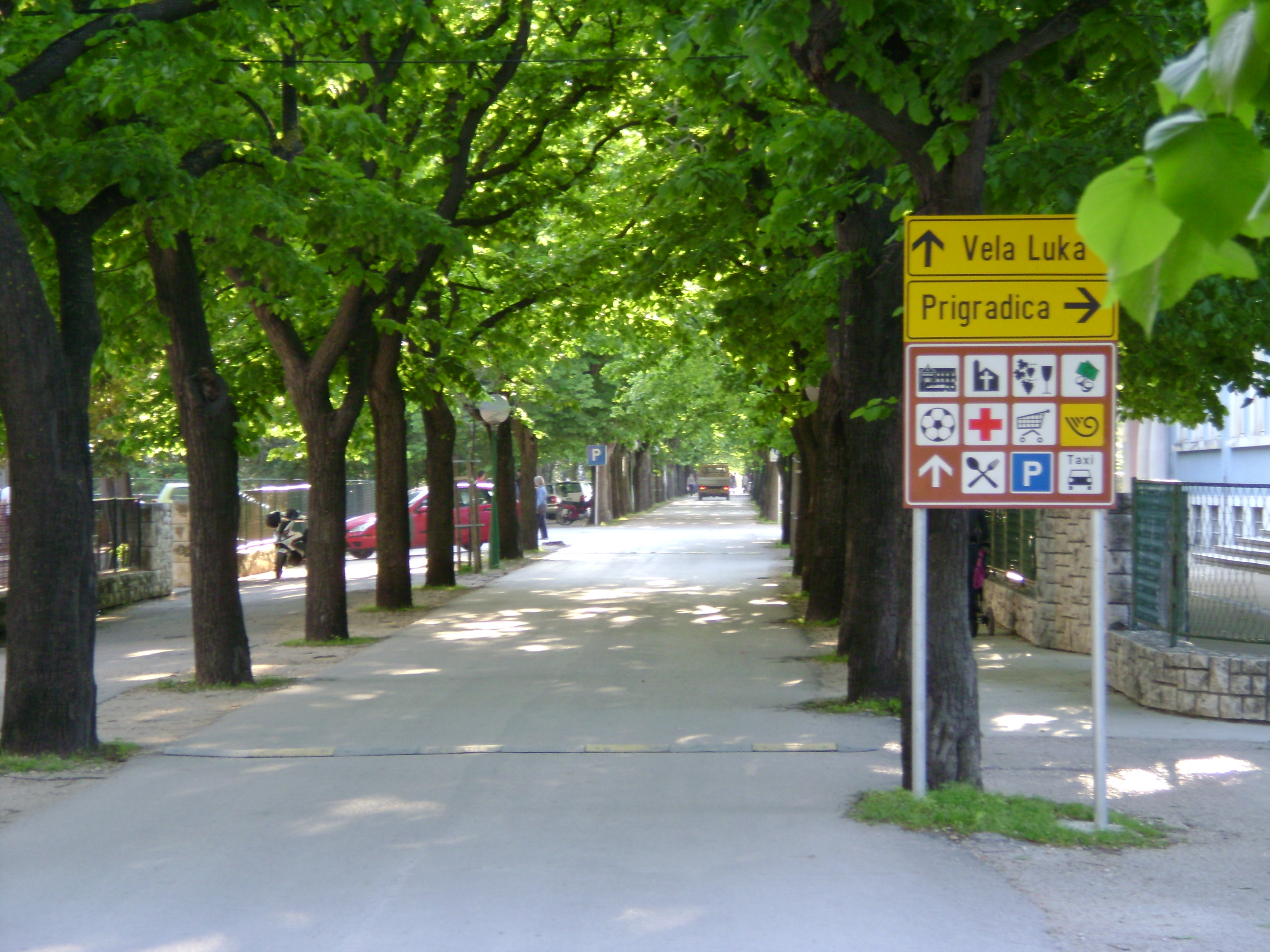 Avenue of tilia in Blato on Korčula